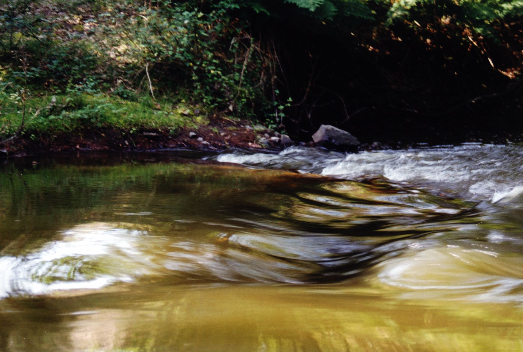 Whirlpools on the stream